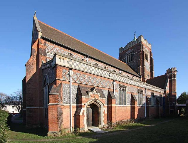 St John the Evangelist, Palmers Green, London N13, near to Winchmore Hill, Enfield, Great Britain.